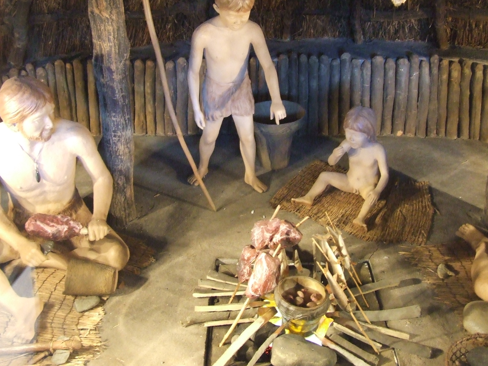 The model of a family in a hut in the Middle Jomon Period